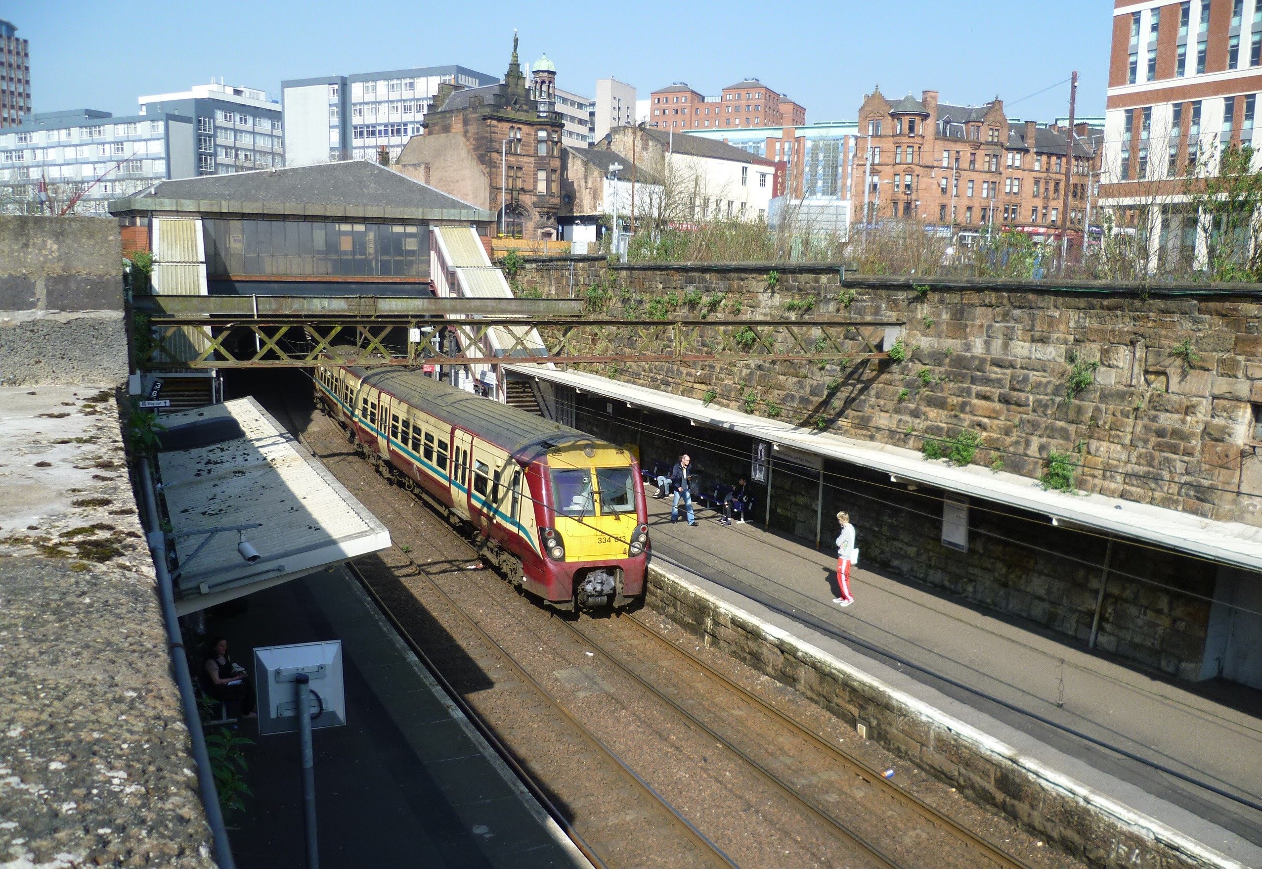 Train arriving at Glasgow High Street